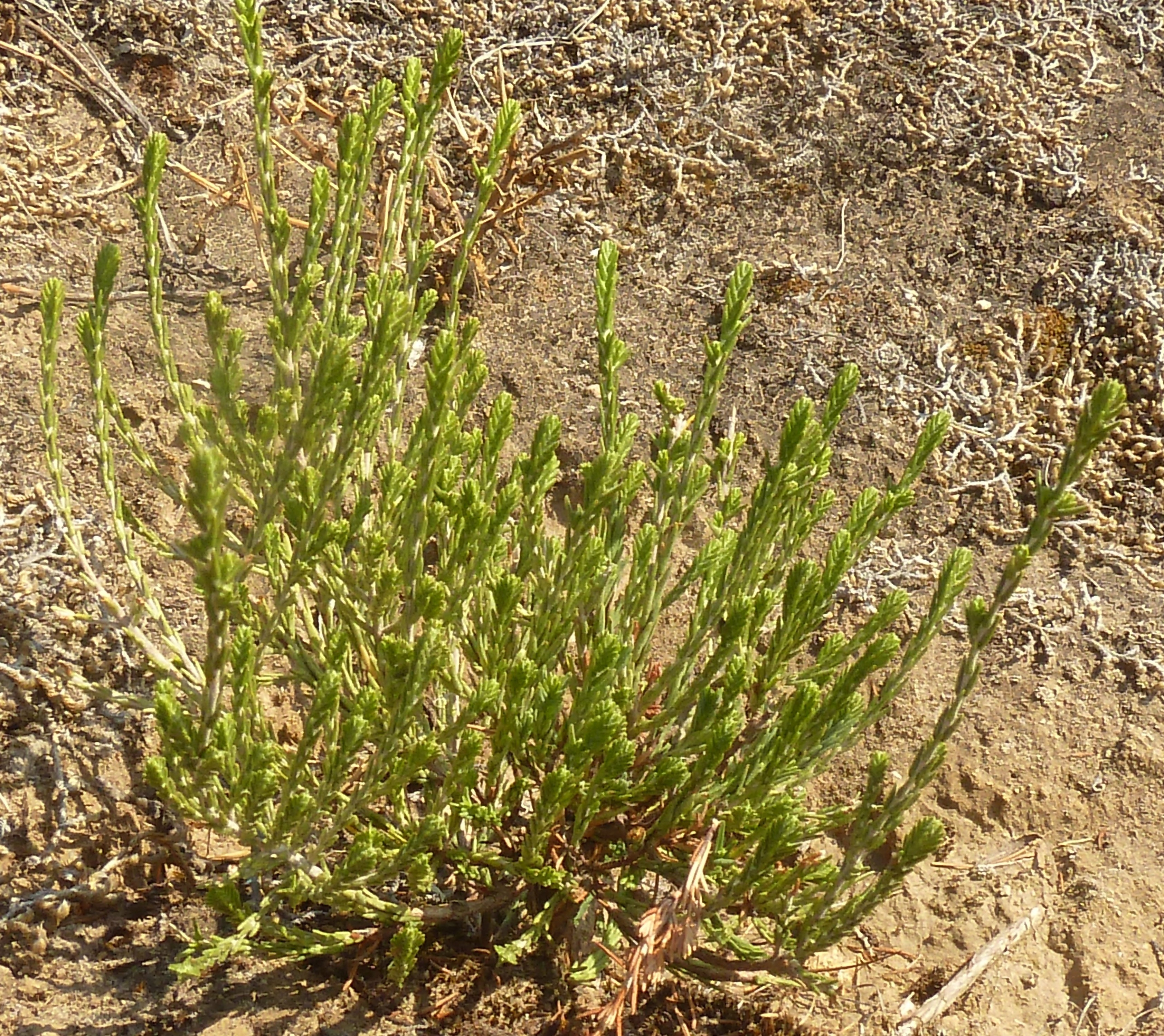 Habit of Mountain gonna at Clarens, Free State